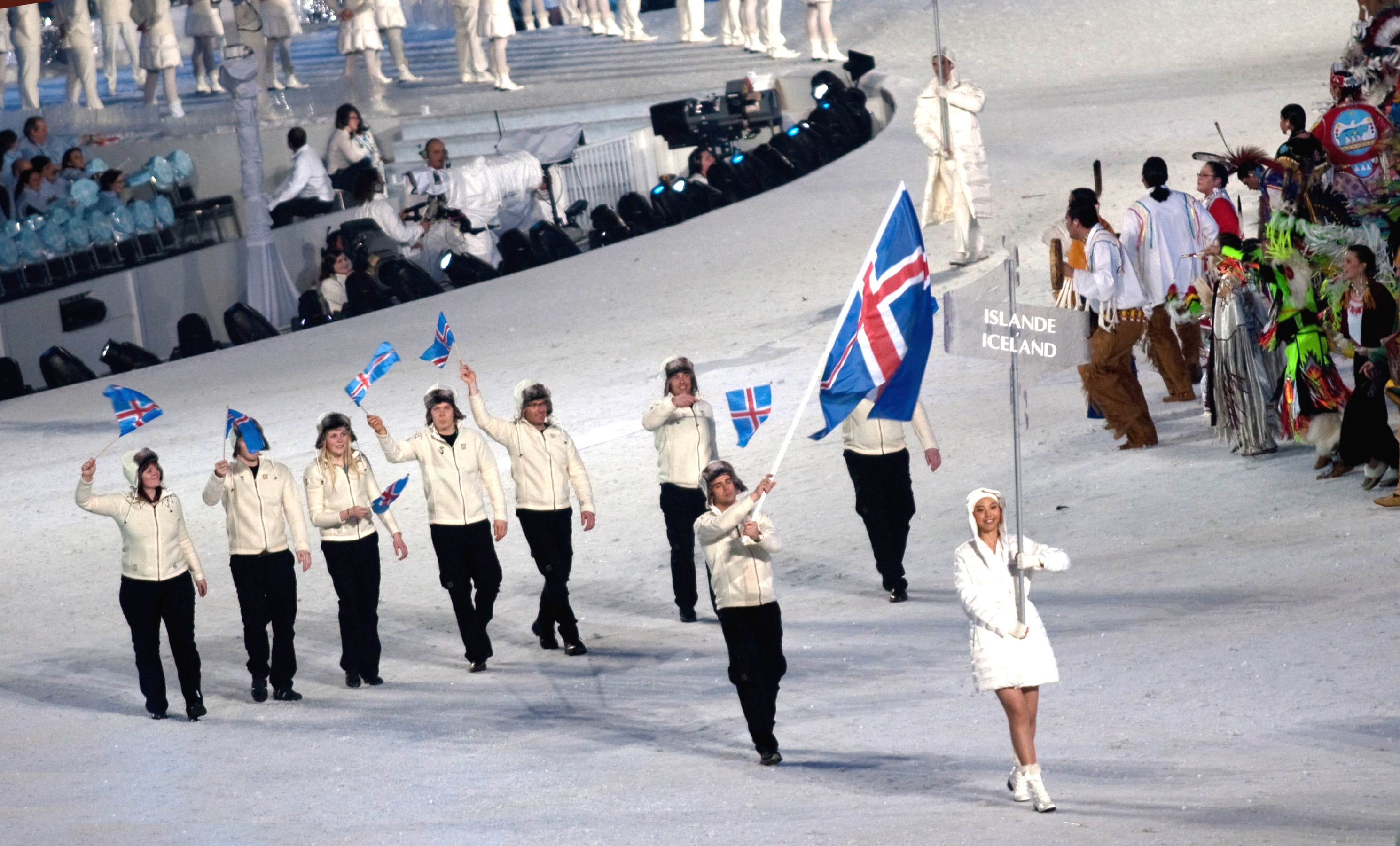 The athletes from Iceland entering the stadium at the opening ceremonies of the 2010 Winter Olympics